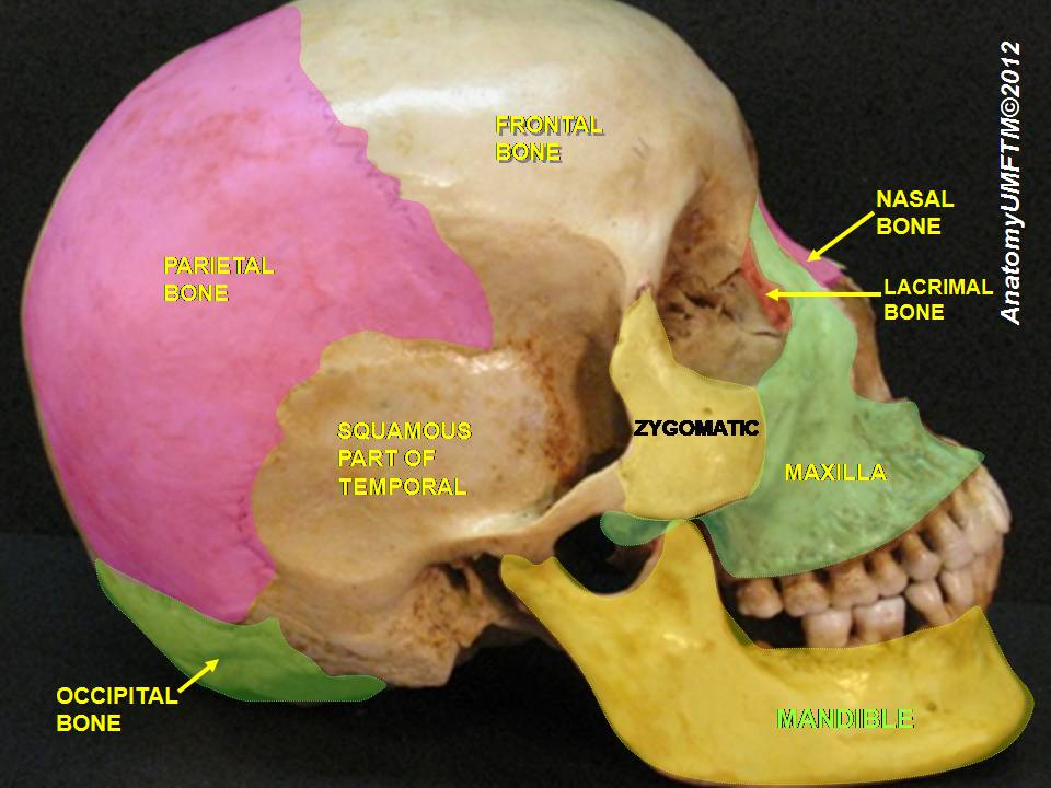 Anatomical dissections